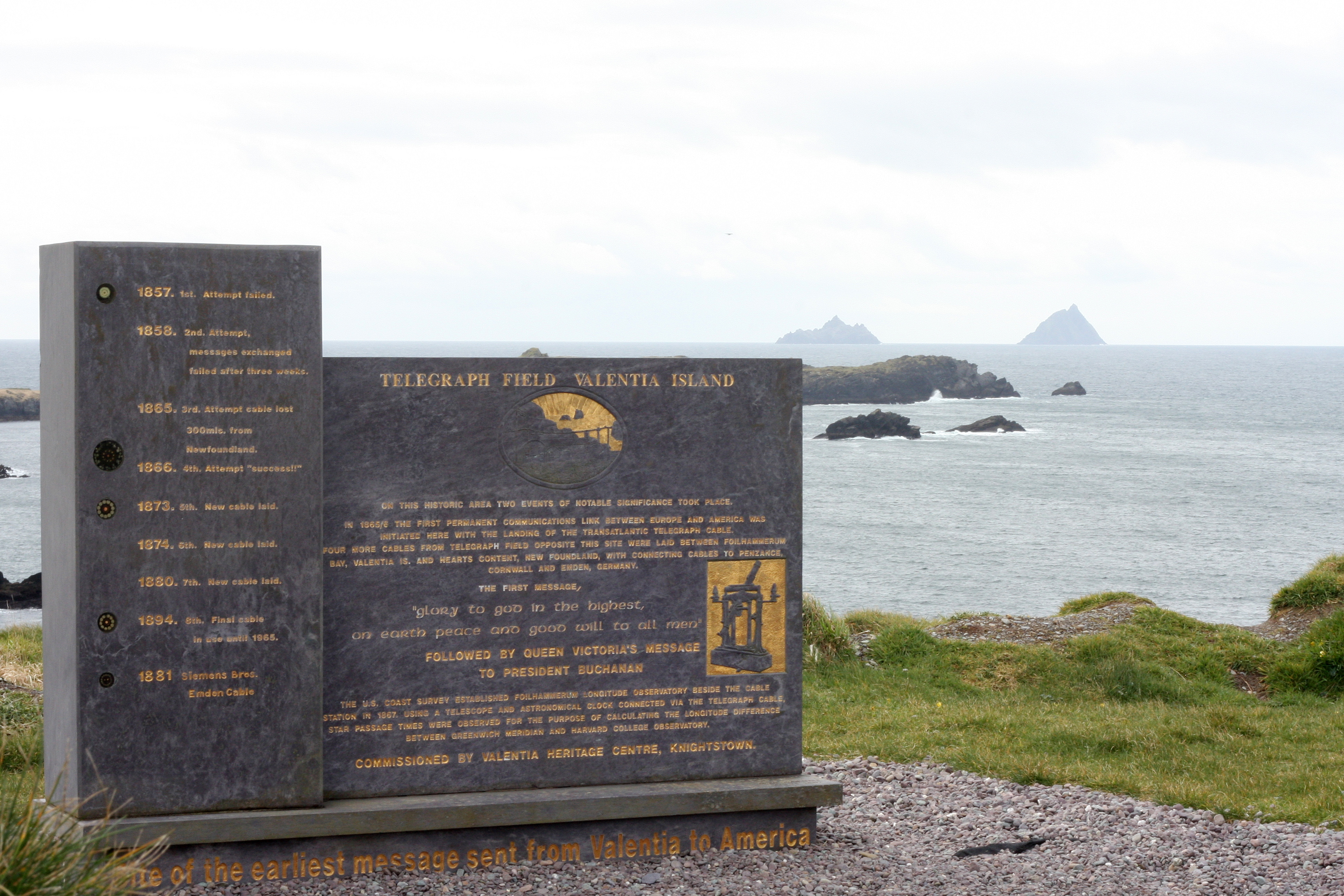 Point of telegraph connection to USA from Ireland, Valentia Island Ireland.